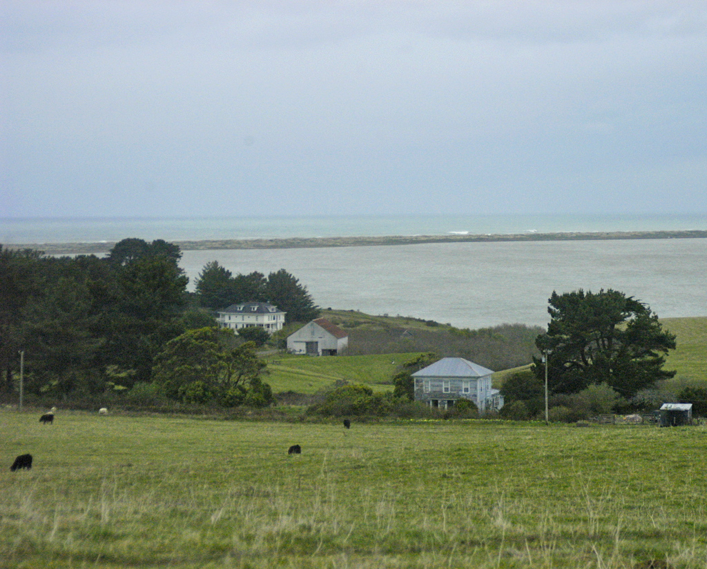 View to the north from Table Bluff towards Humboldt Bay with the blue Seth Kinman home in the foreground. Kinman had the first accepted land claim in Humboldt County, California. To the left and rear is the large white home of the Haneys, a properous merchant family.